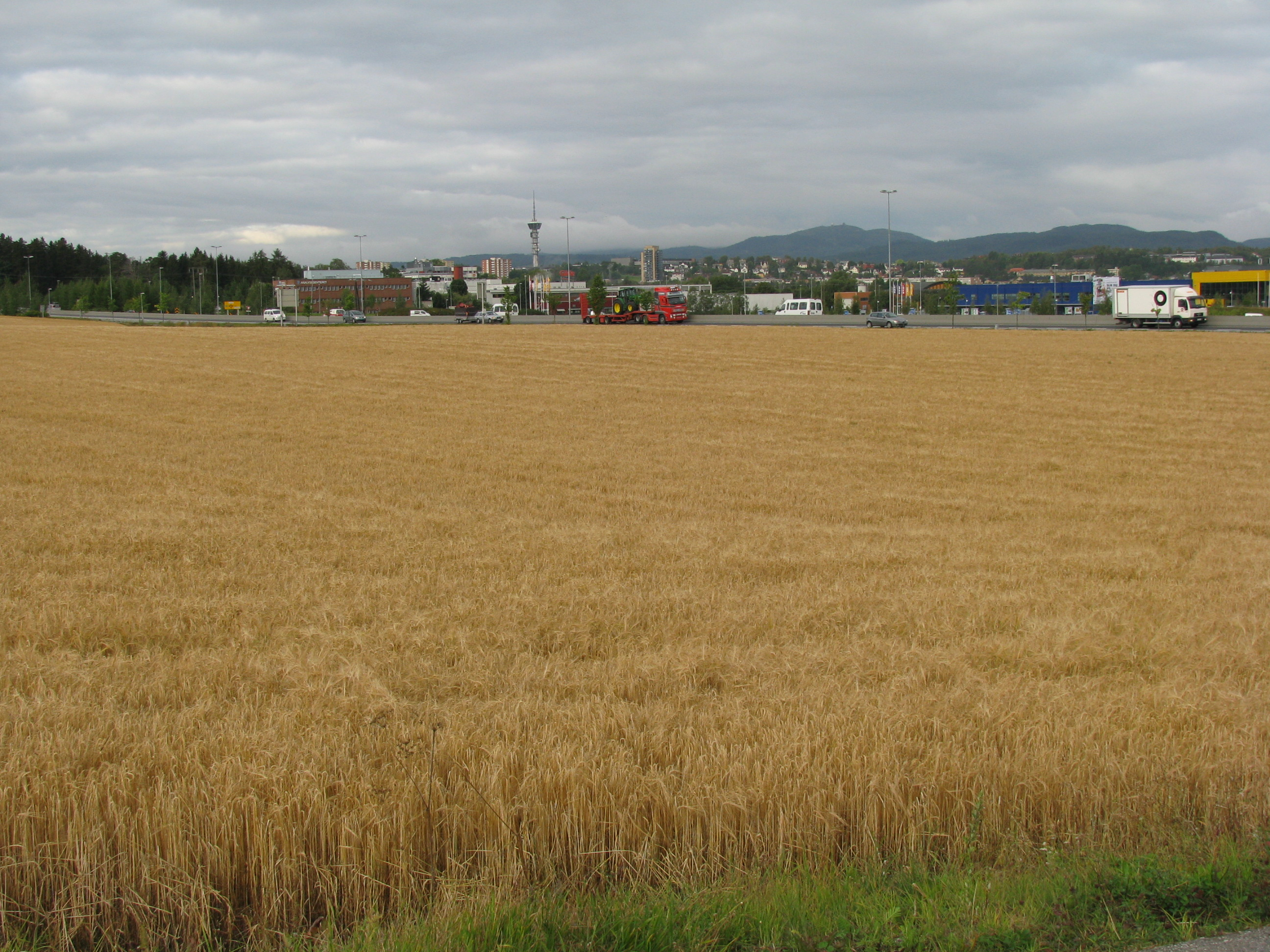 Several of the largest metropolitan areas of Norway, including Oslo, Stavanger and Trondheim, are located in some of the best farmland in the country. As Norway is short on good arable land, the need for city development are bound to clash with the need to preserve good farmland. Grain field at Tungasletta, eastern Trondheim, Norway.